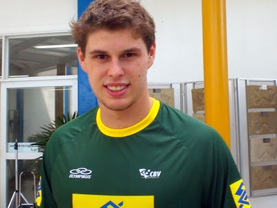 bruninho